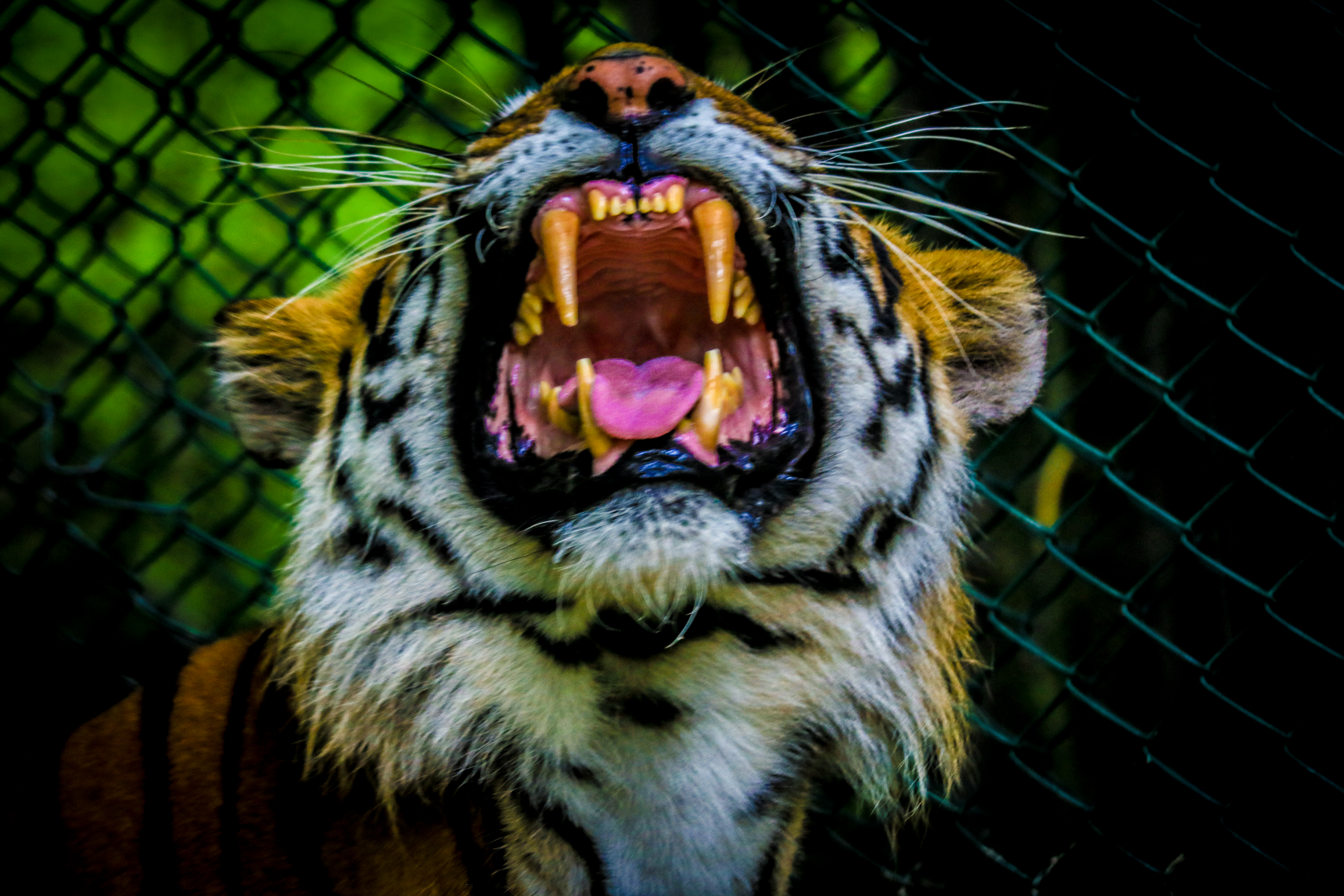 Started to roar when people started shouting seeing it